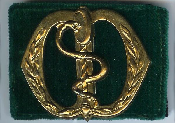 Dutch cap badge from the Medical Officers (1947-1951)